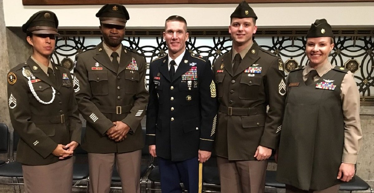 U.S. Army new pinks and greens service uniform